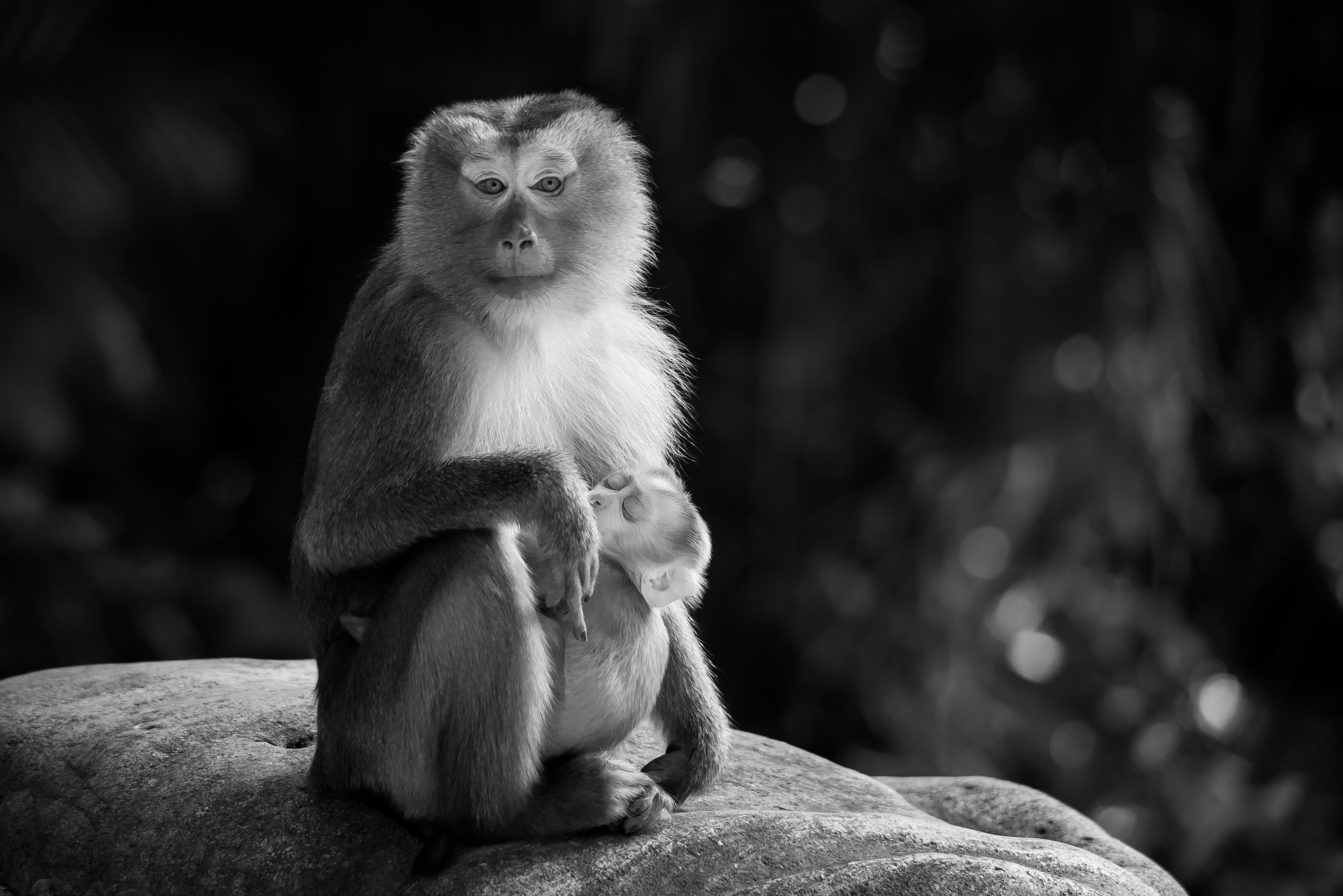 Khao Yai National Park My website; My blog; My contributions to Wiki Commons; My videos on YouTube